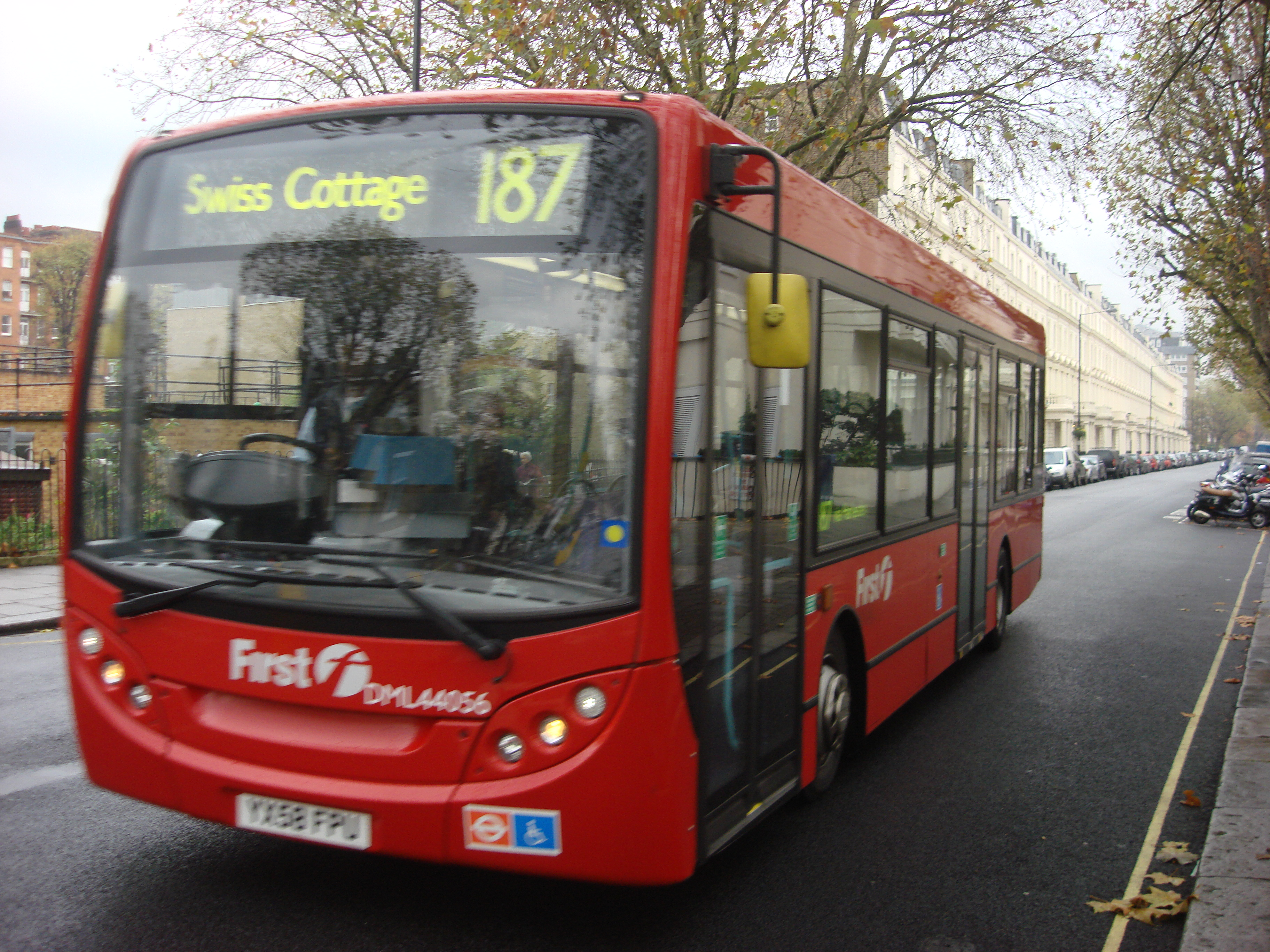 First London DML44056 (YX58 FPU), an Alexander Dennis Enviro200 Dart, on London Buses route 187.